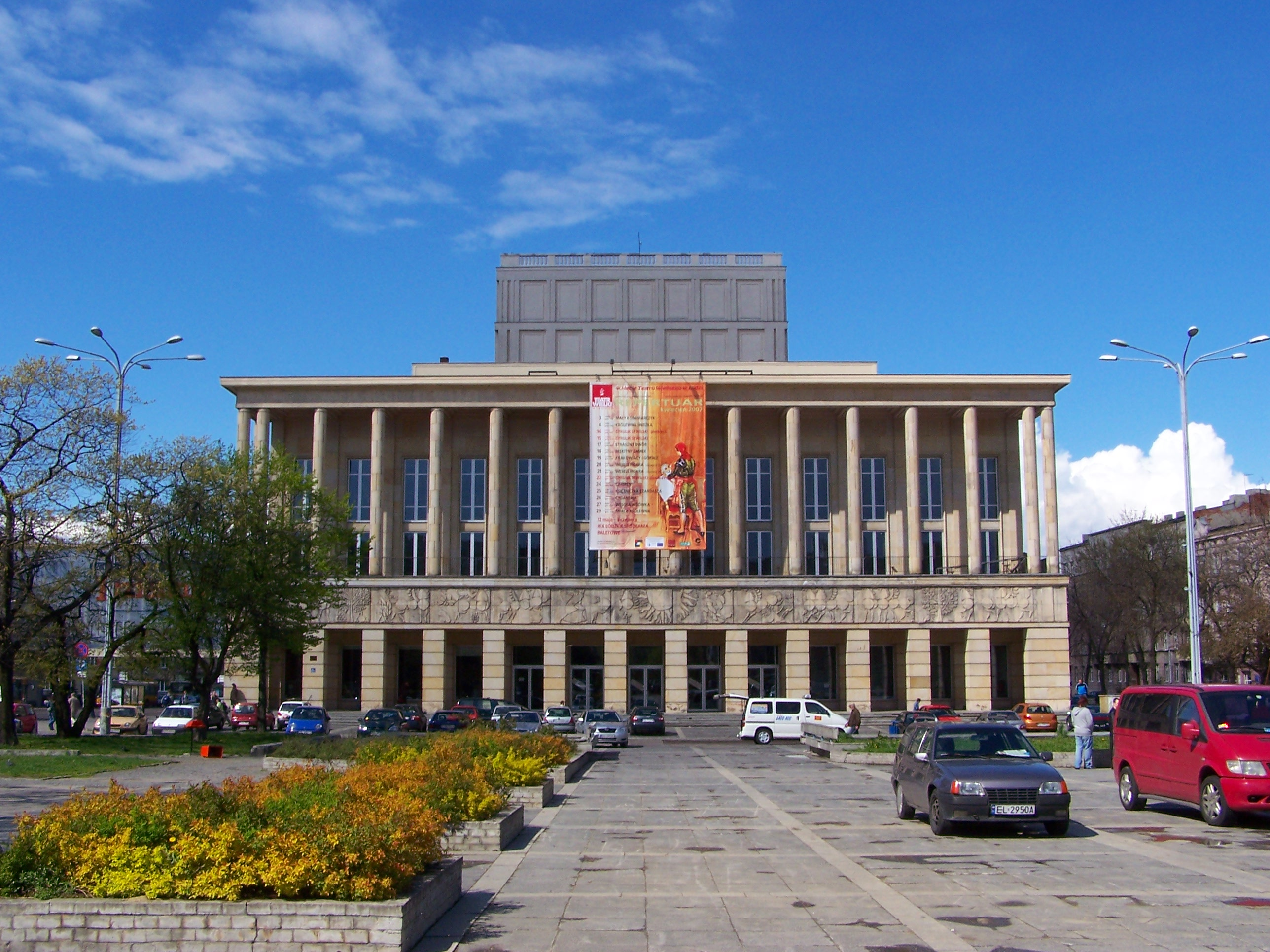 Opera House in Łódź (Poland).